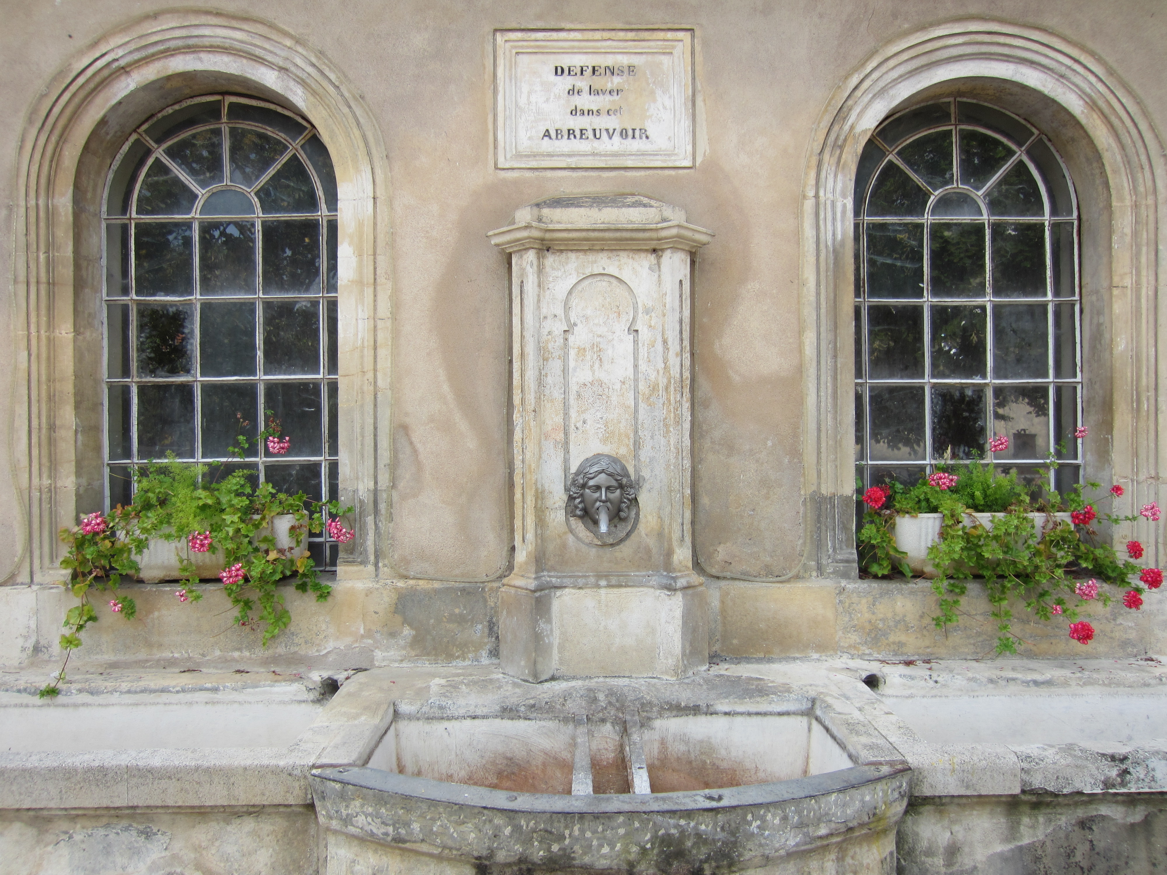 Description lavoir Jaulny Date27 September 2011Sourcemon appareil photoAuthorAimelaimePermission (Reusing this file) lavoir Jaulny